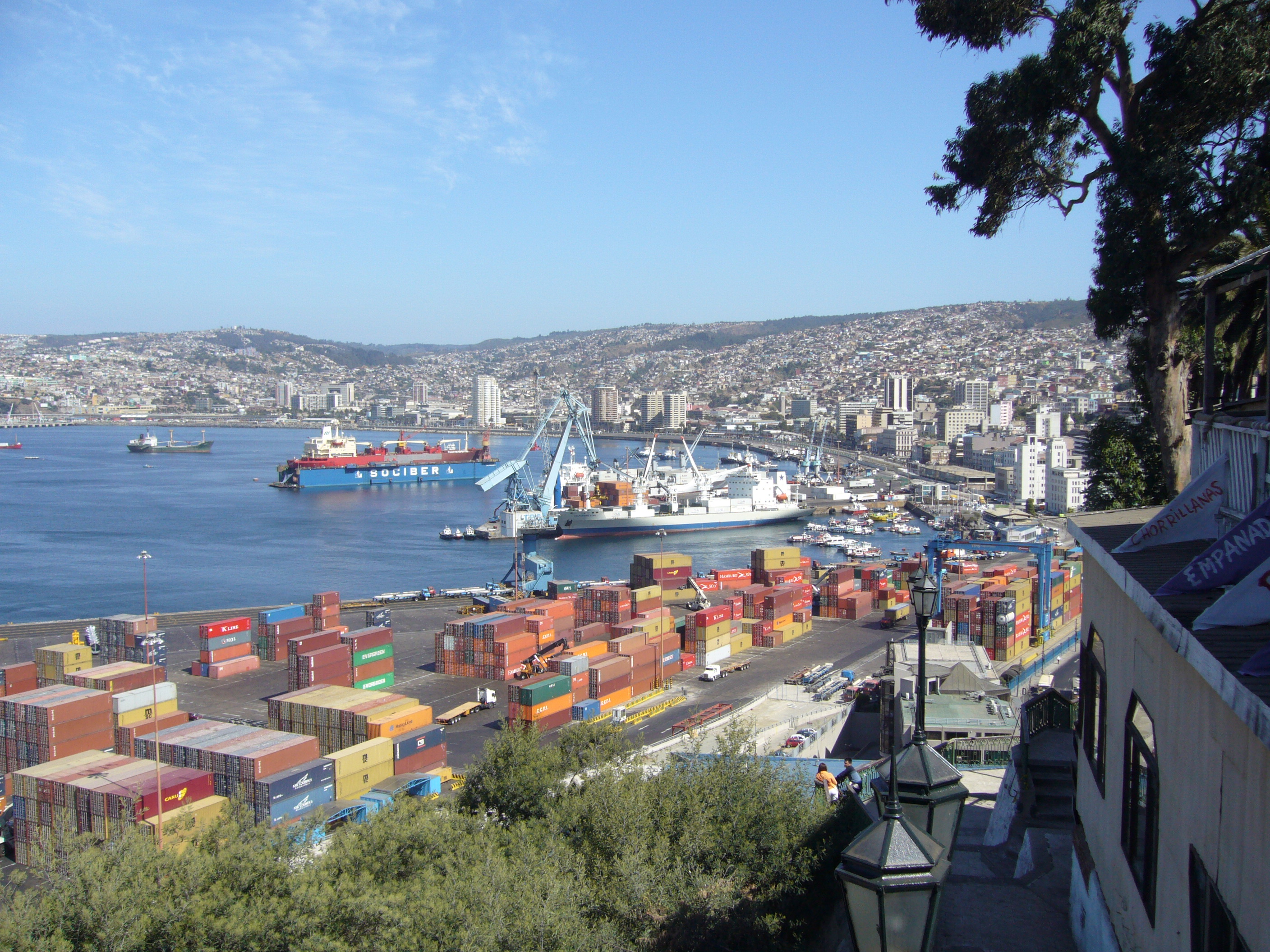 Port of Valparaiso (Chile)